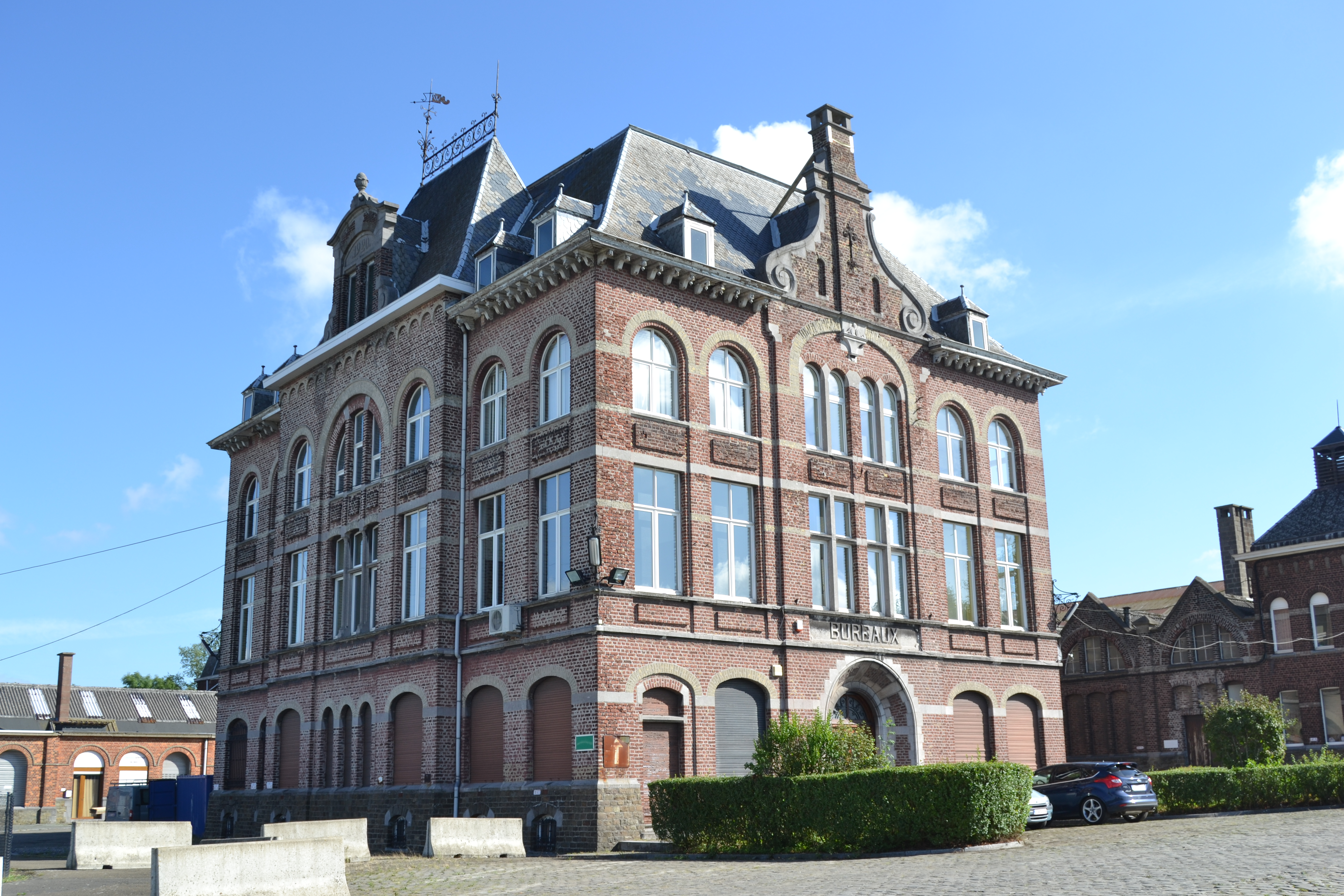 Ancient administrative seat of the Société anonyme des Charbonnages de Wérister (coal mine in Liège, Belgium)